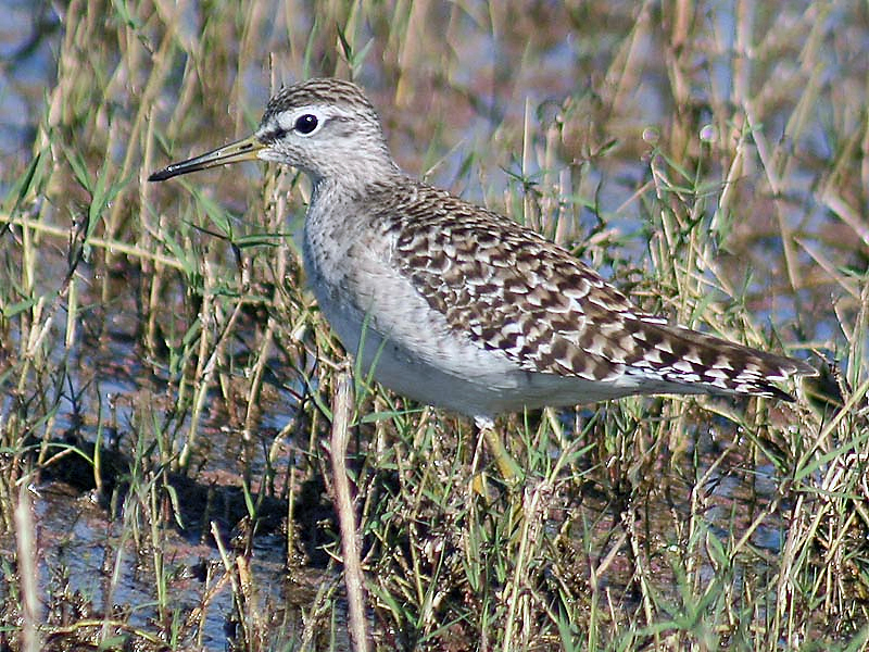 Wood Sandpiper Tringa glareola at Bharatpur, Rajasthan, India.